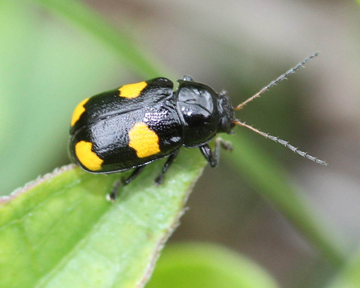 Cryptocephalus nobilis, in Mount Ibuki, Maibara, Shira prefecture, Japan.